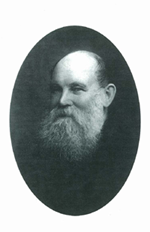 Picture of Benjamin Short who died in 1912. He was one of the founders of Mission Australia and his photo is to be used to illustrate the history section of the Mission Australia entry.